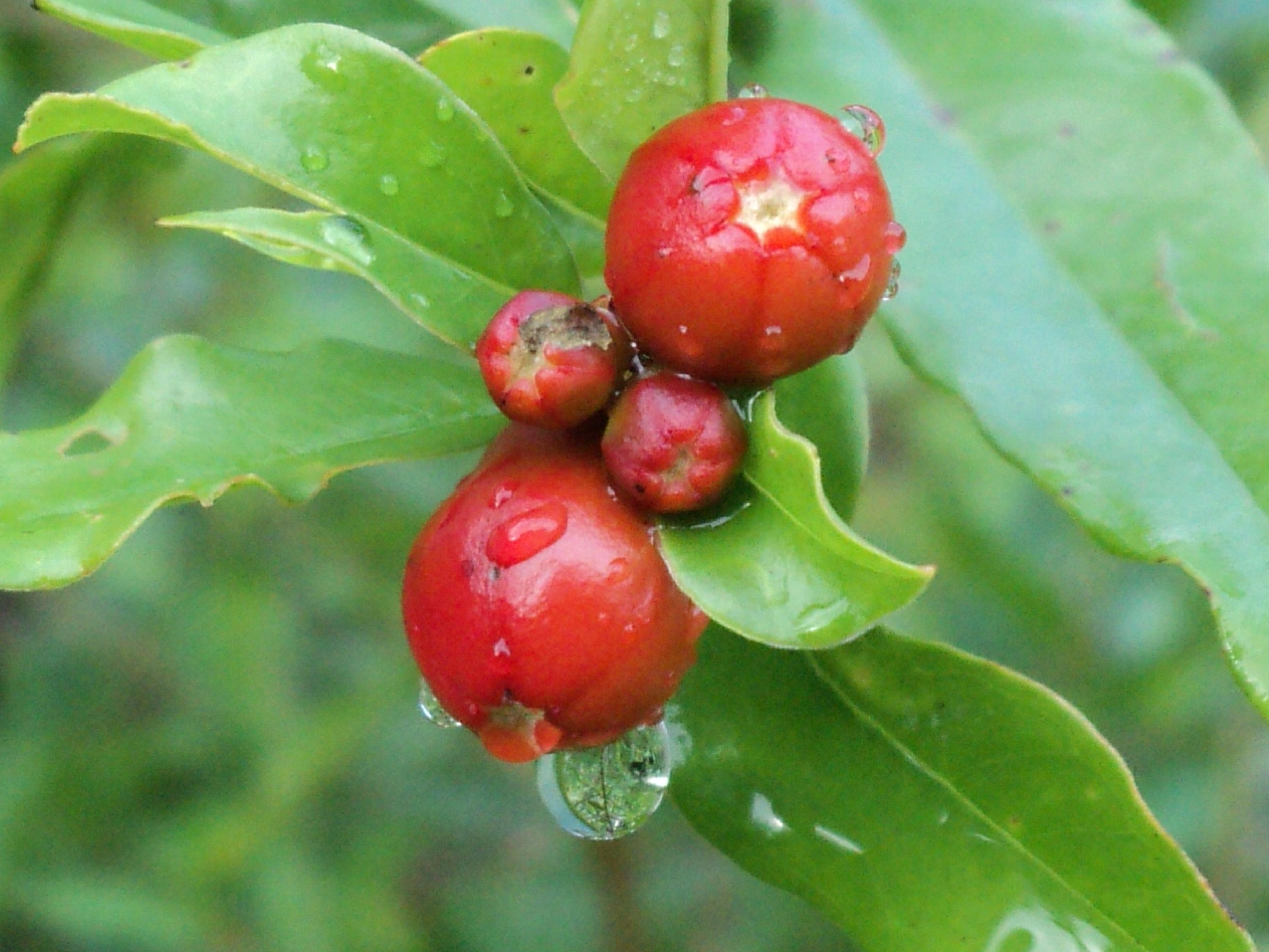 Tender fruit of a Pomengranate